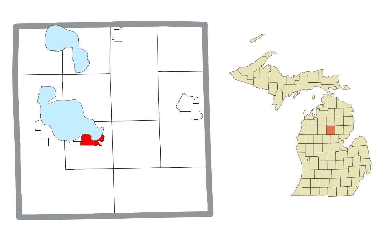 Prudenville, MI